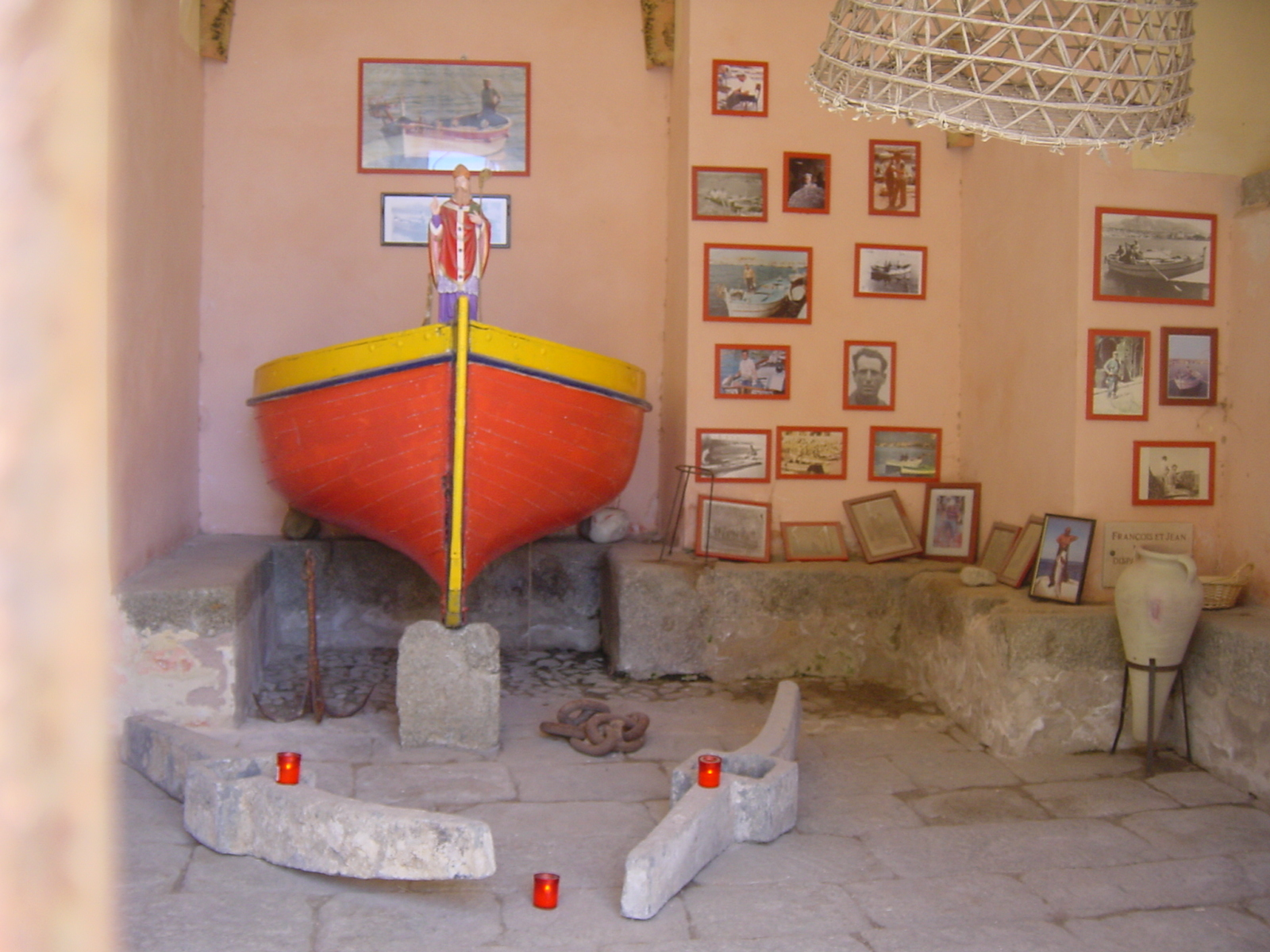 Ex-voto in Ile Rousse, city of Corsica (France)